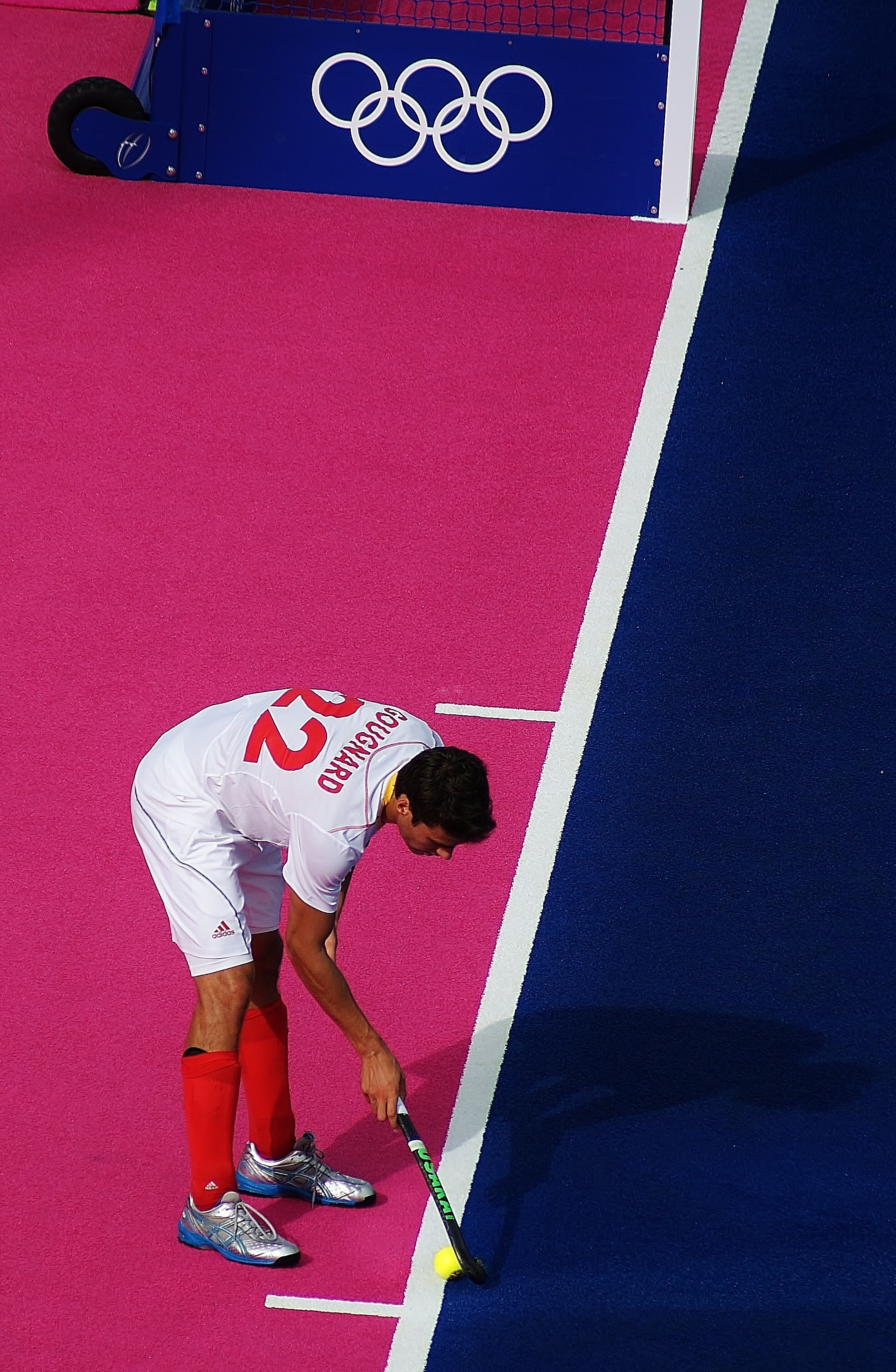 Belgian hockey player Simon Gougnard preparting to take a penalty corner at the London 2012 Olympics